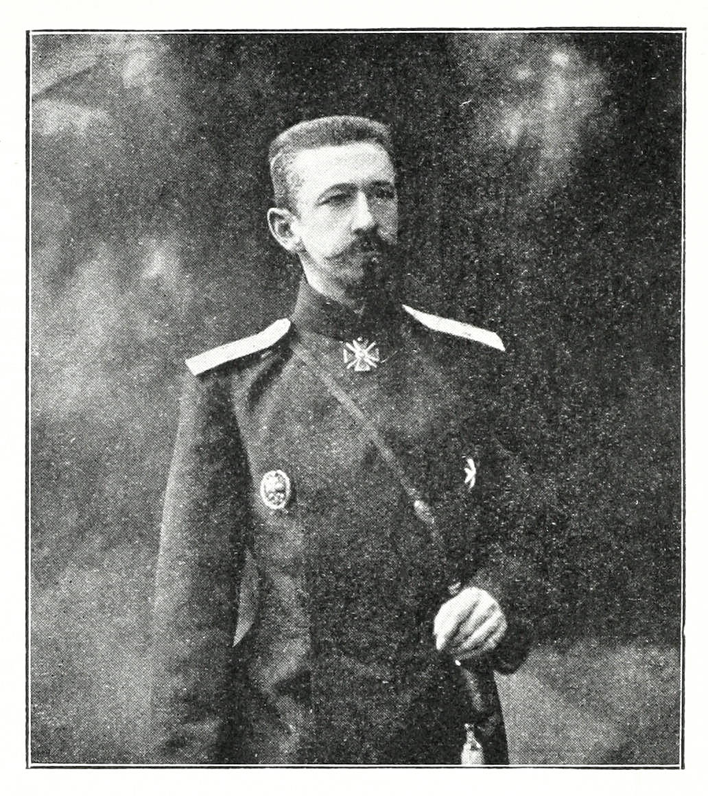 Gurko, Vasily Iosifovich. Гурко, Василий Иосифович (1864 — 1937) — российский генерал от кавалерии (1916). Это изо было использовано в статье «Гурко, Василий Иосифович» опубликованной в восьмом томе «Военной энциклопедии», который был издан книгоиздательским товариществом И. Д. Сытина в 1912 году в столице Российской империи городе Санкт-Петербурге.